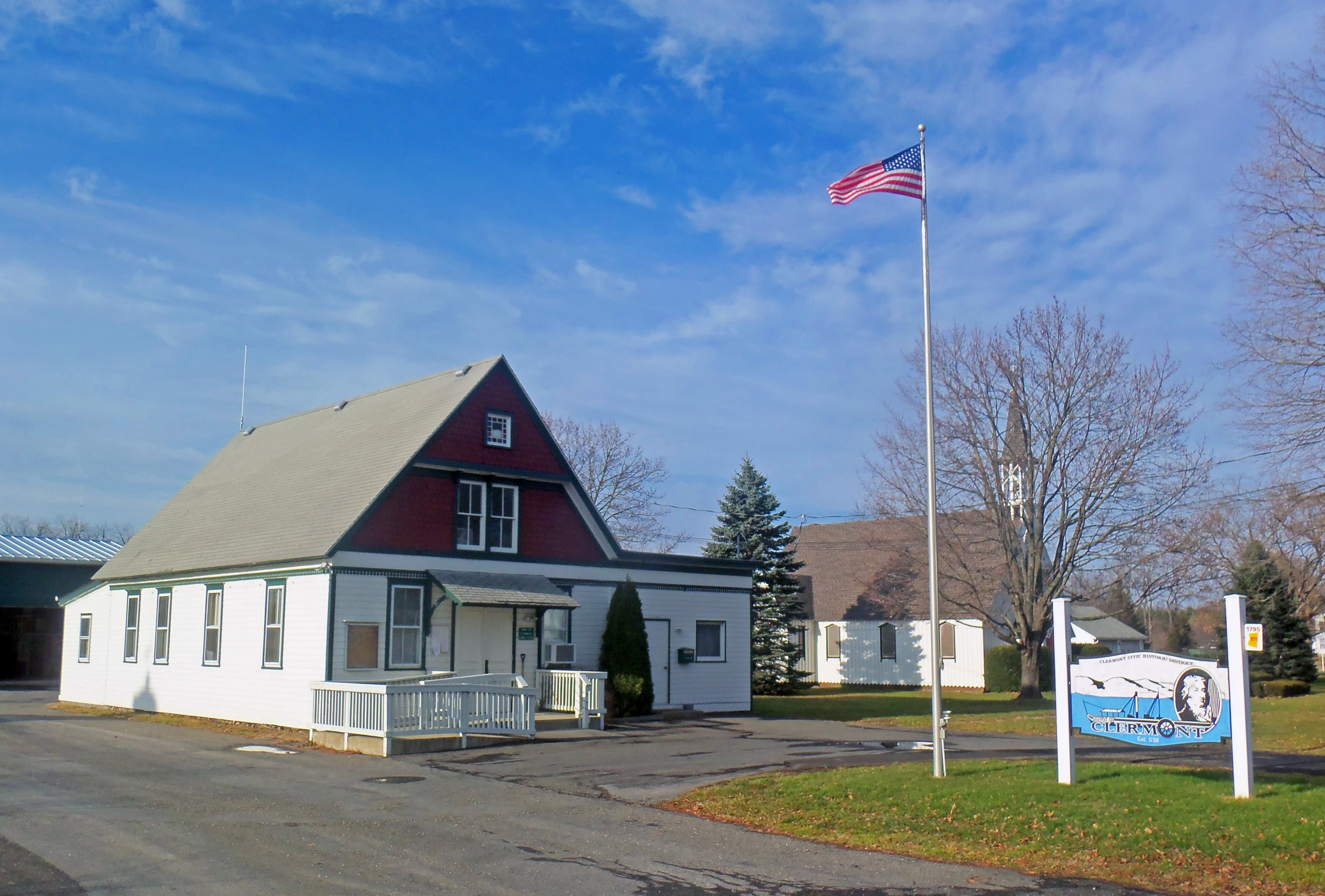 Clermont, NY, town hall (Former St. Luke's Church in background)